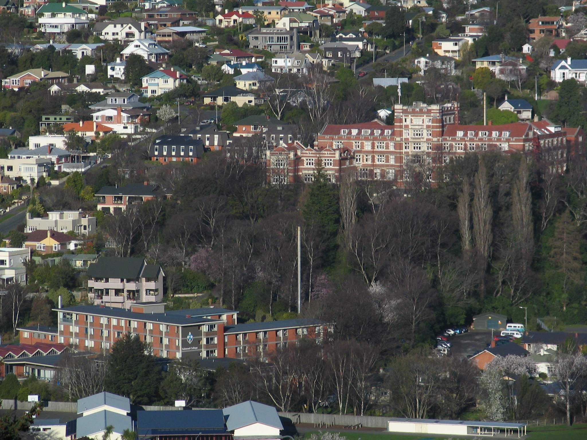 Knox College, Salmond College, and Opoho view, Dunedin, New Zealand from Pine Hill.